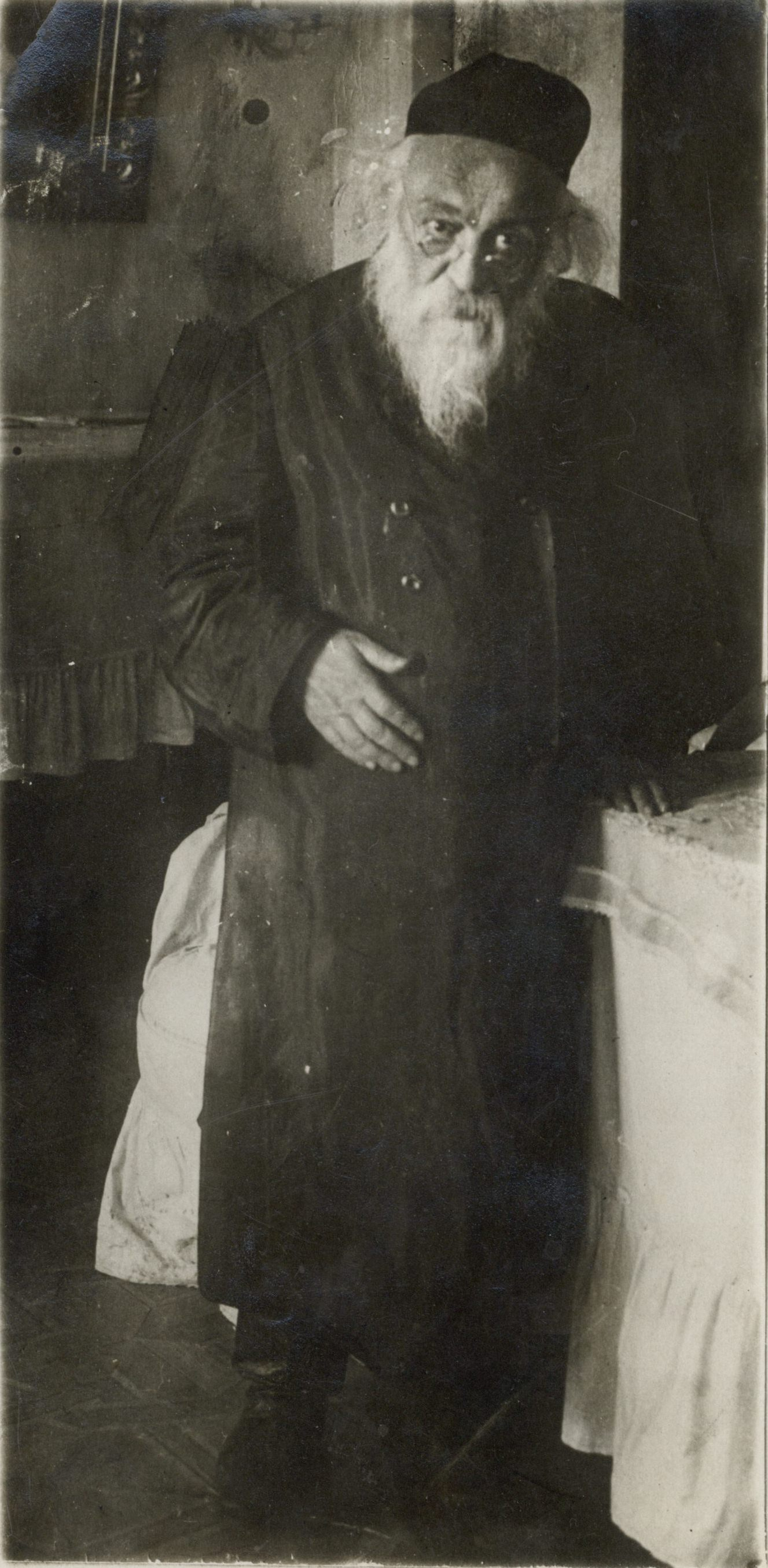 Picture of Chaim Soloveitchik